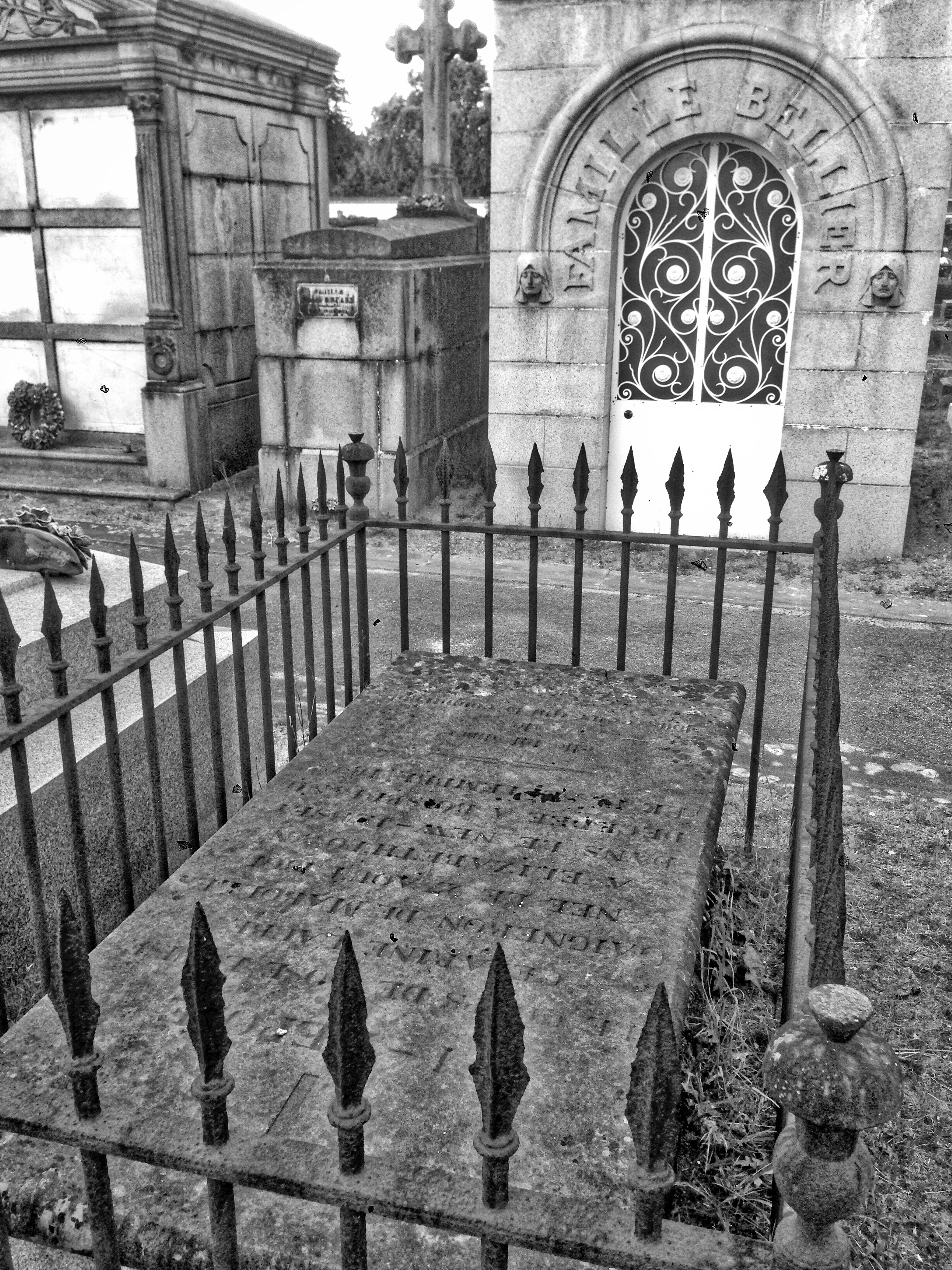 Laure Gaigneron de Marolles grave. Nantes, Toutes-Aides Cimetary. Ci-gît Rose Cesarine Laure Gaigneron de Marolles Elisabethtown New-Jersey 1829 Bois-Briand - "She was beloved by all who met her".